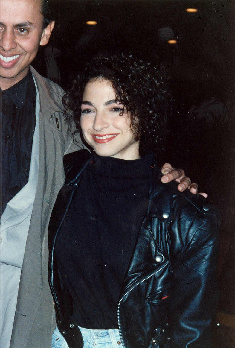 Gloria Estefan at the rehearsal for the 1990 Grammy Awards.